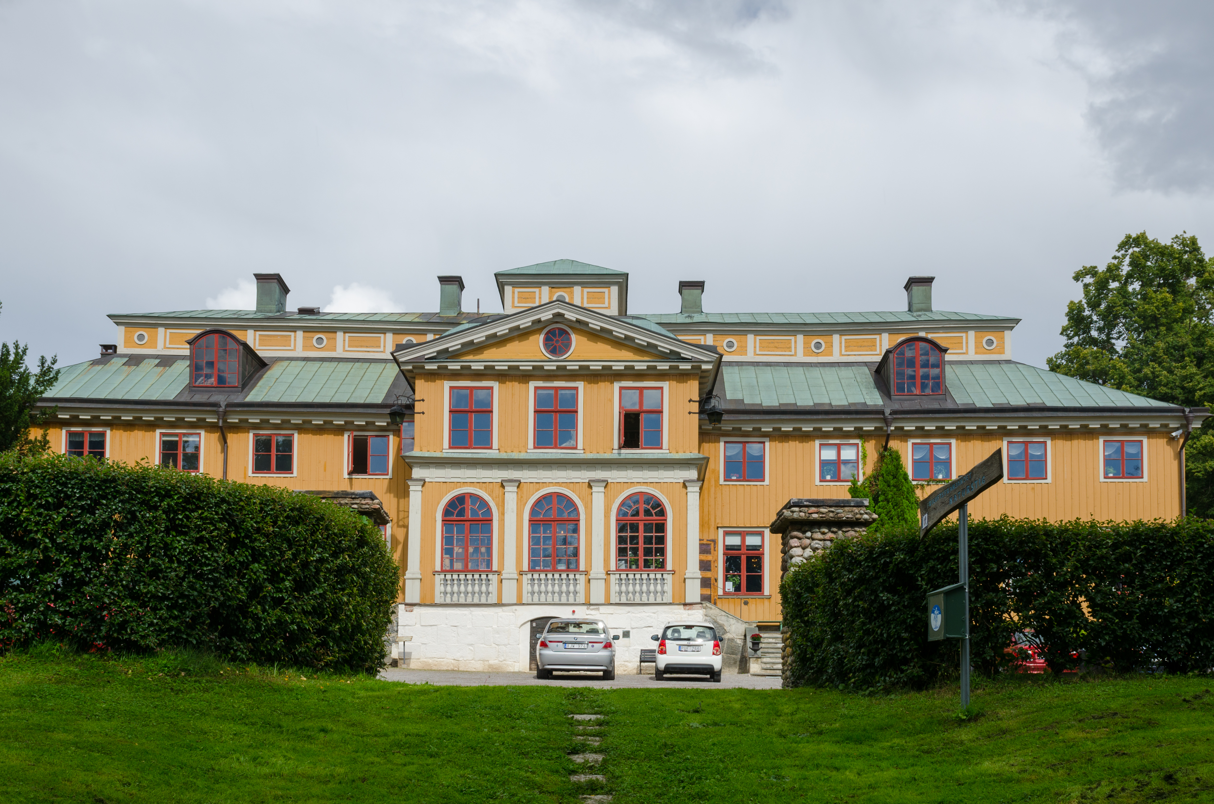 Ekebyhovs slott.